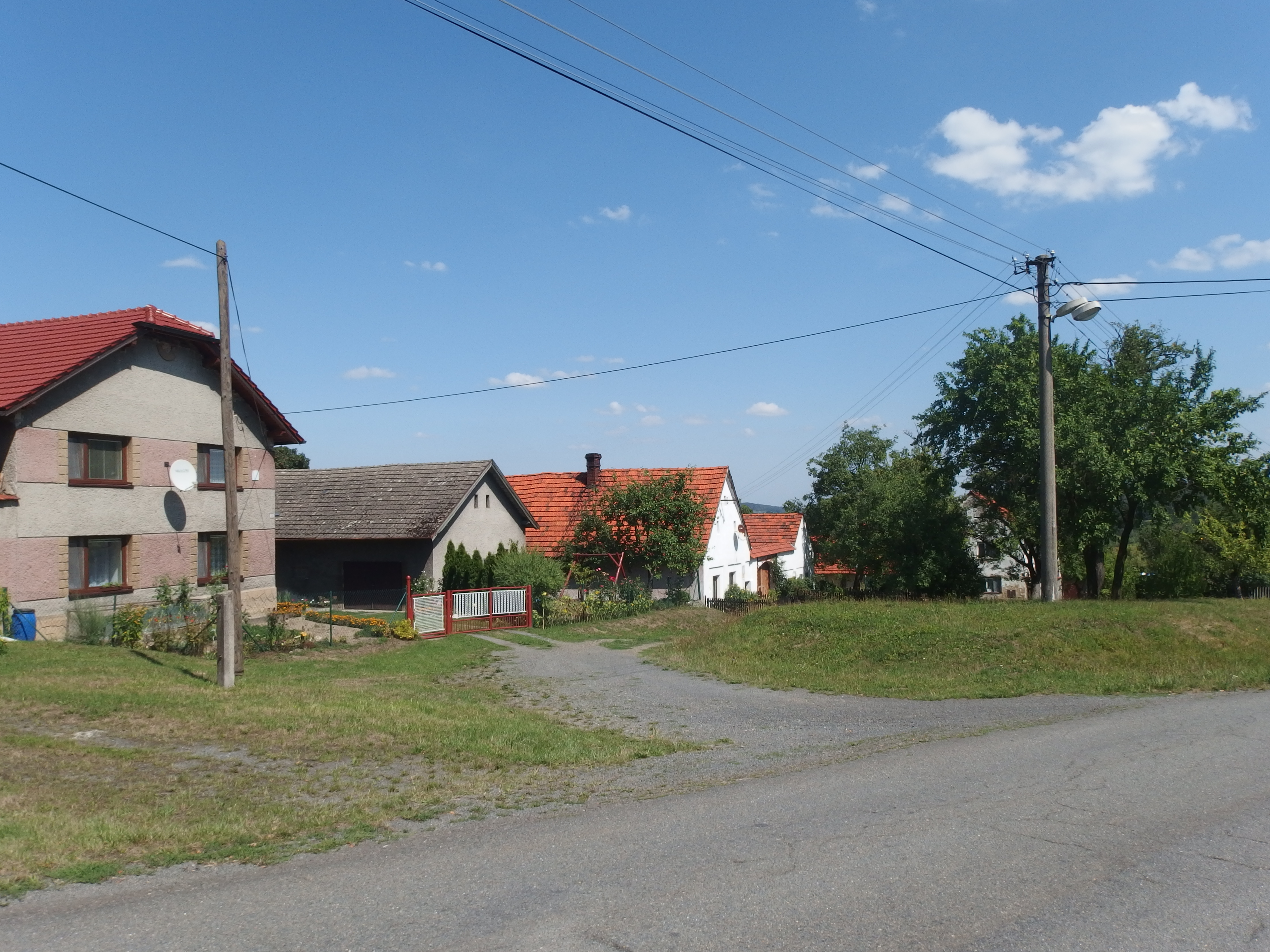 Starý Jičín, Nový Jičín District, Czech Republic, part Heřmanice.